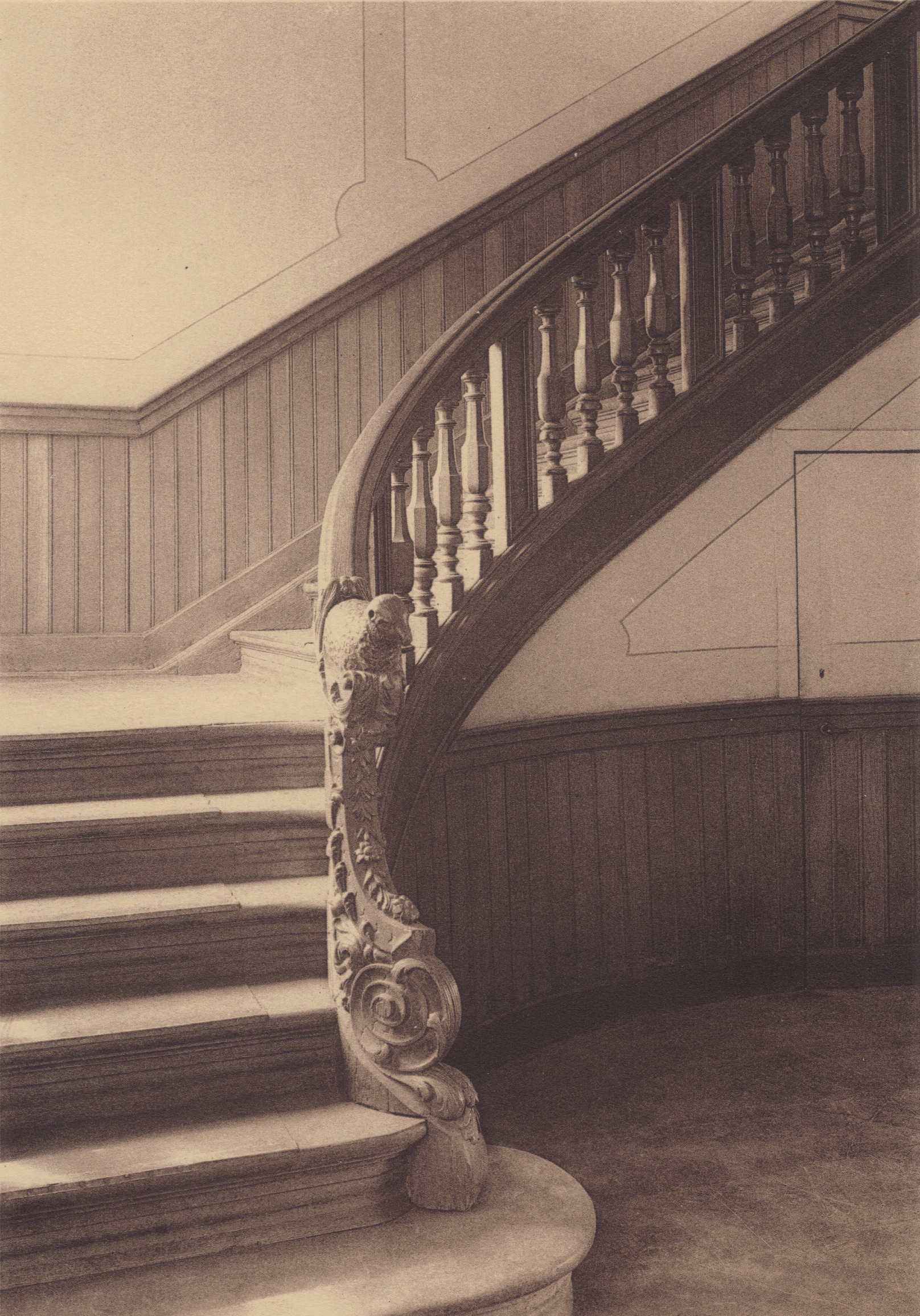 Bonne-Espérance Abbey, Vellereille-les-Brayeux (Belgium), oak staircase (18th century).